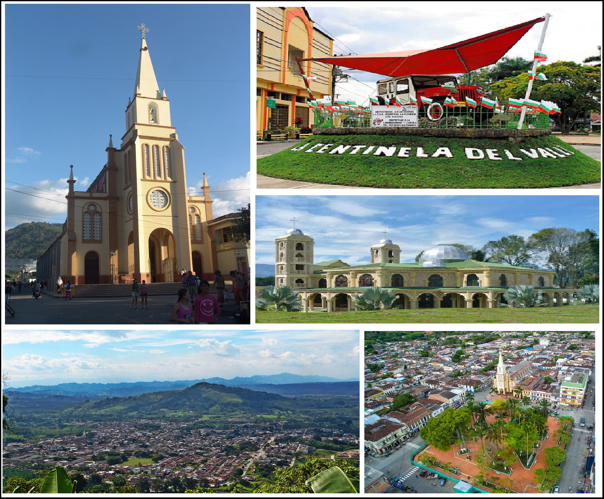 Municipalidad de Caicedonia Valle